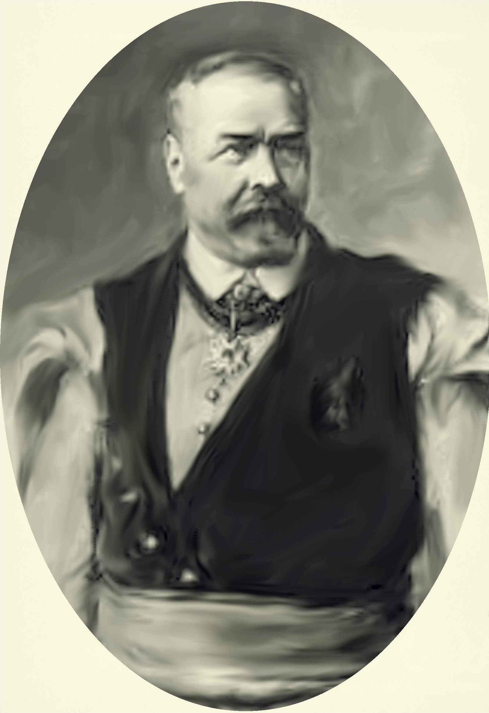 Jan Ewangelista Goetz - founder and first owner of the brewery Okocim